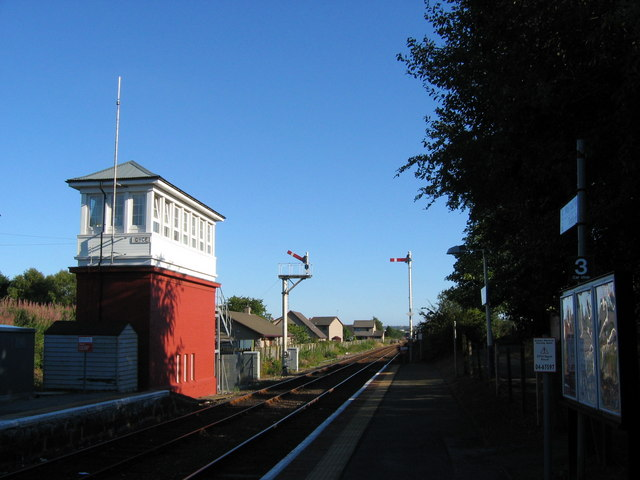 Dyce signal box seen from Dyce station